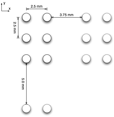 Physical layout of Braille glyphs, as described.